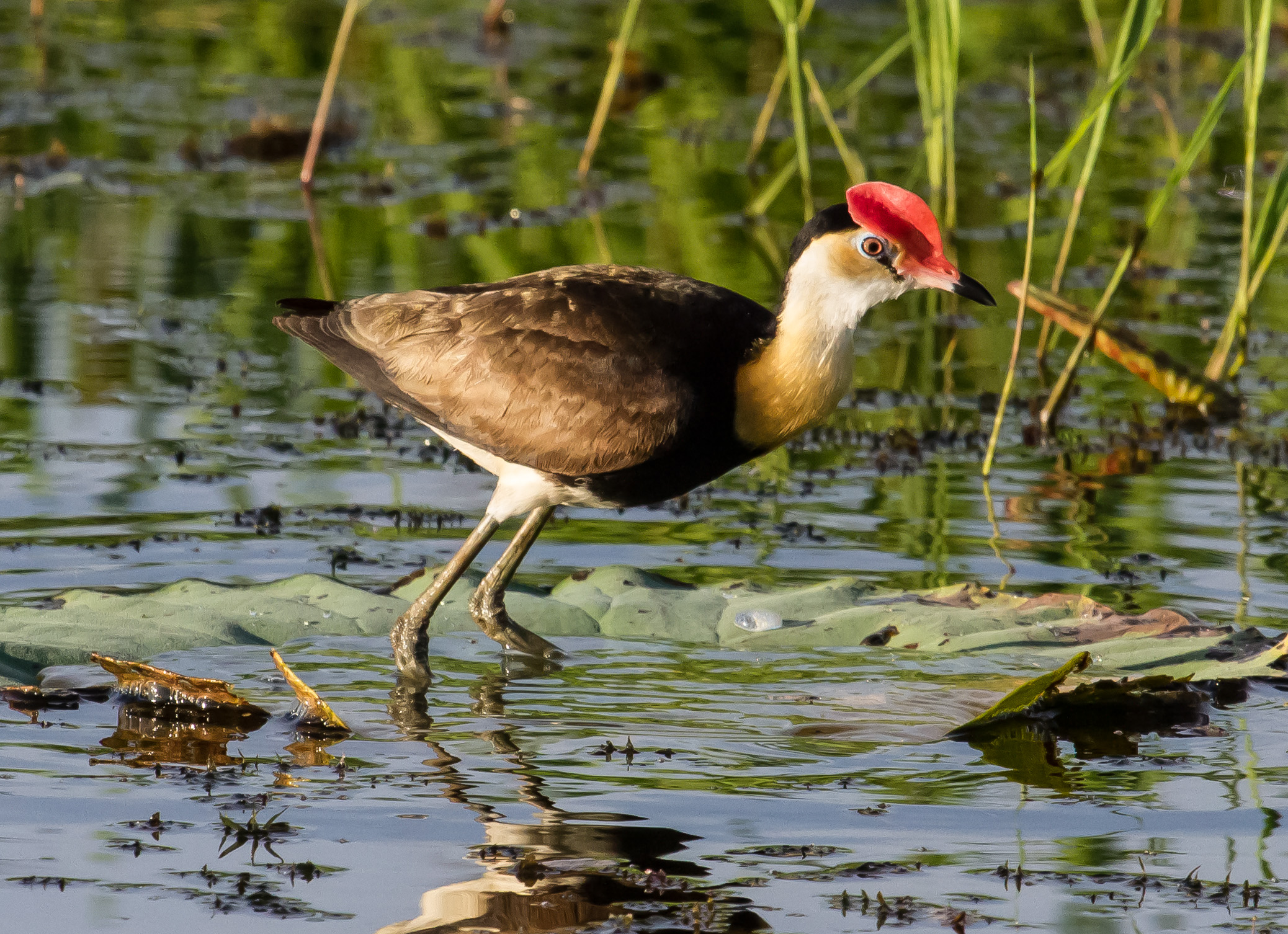 Fogg Dam, Middle Point, Northern Territory, Australia, March 2014